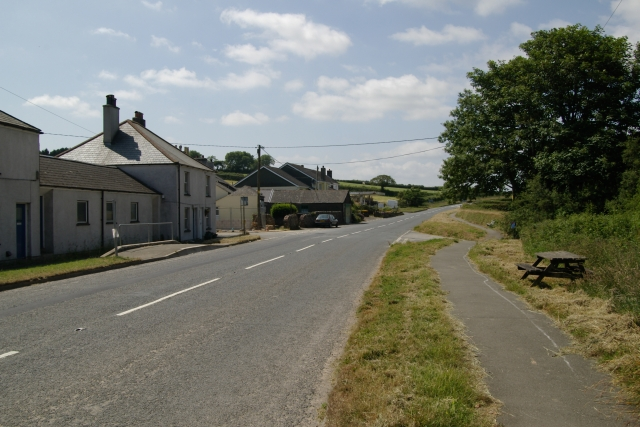 A387, Widegates. The north western end of Widegates, on the A387, Cornwall.